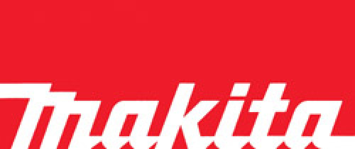 makita corporation logo